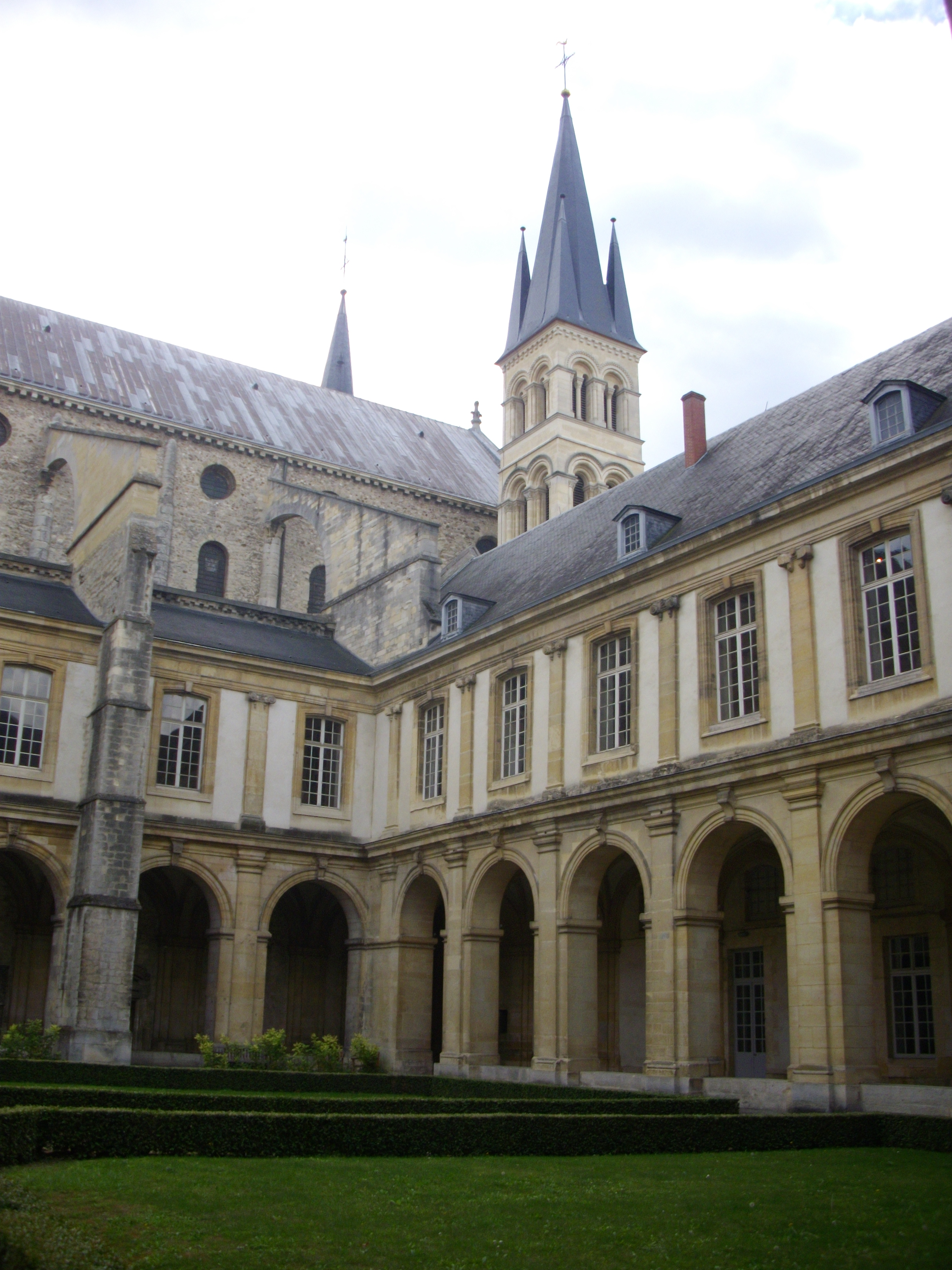 Cloister of Saint remi abbey in Reims (Marne, France) and tower of the basilica